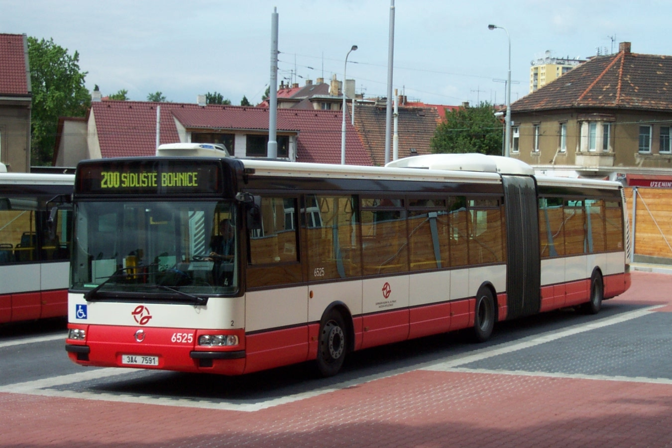 Prague articulated bus Irisbus Citybus (Agora) on then new terminus Kobilisy, formerly known (before metro was built here) as Střelniná